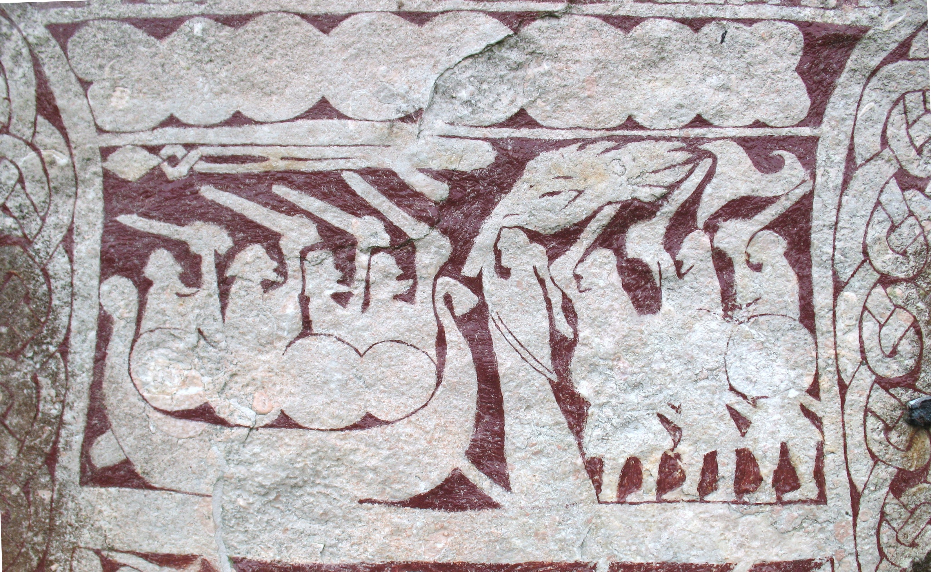 Hild and Hjadningavig. A detail from the Stora Hammar stone an image stone on Gotland